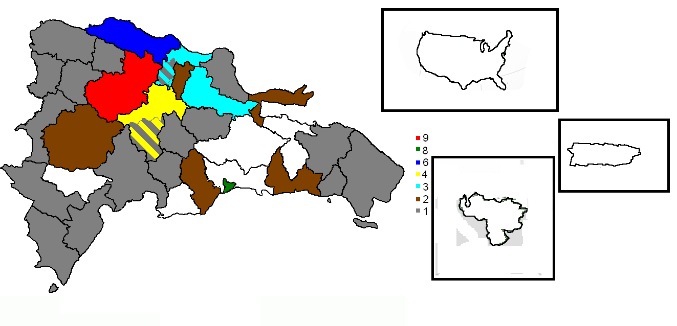 Map of Province and Municipalities that had won Miss Dominican Republic